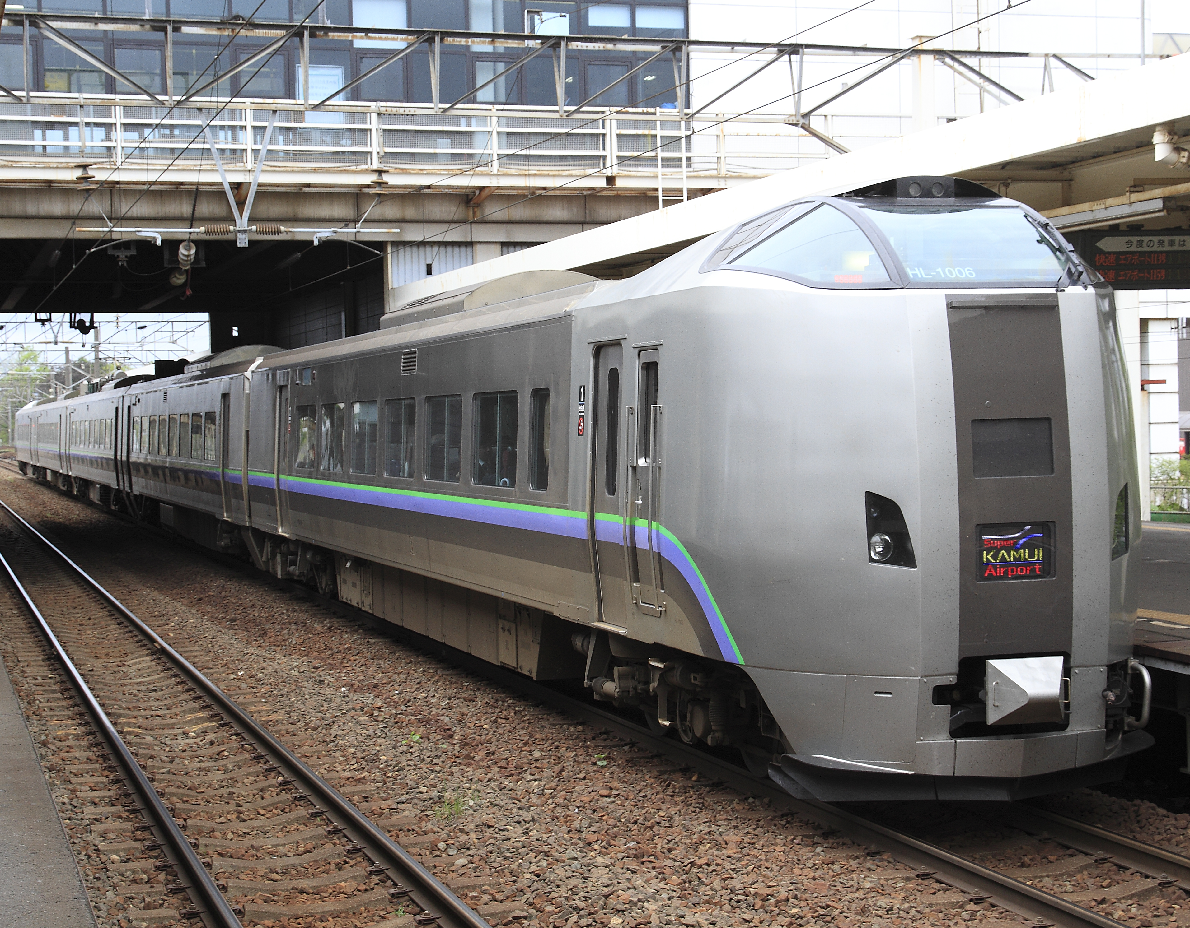 JR Hokkaido 789-1000 series EMU set HL-1006 at Minami-Chitose Station on a Airport Rapid and Super Kamui Limited Express service